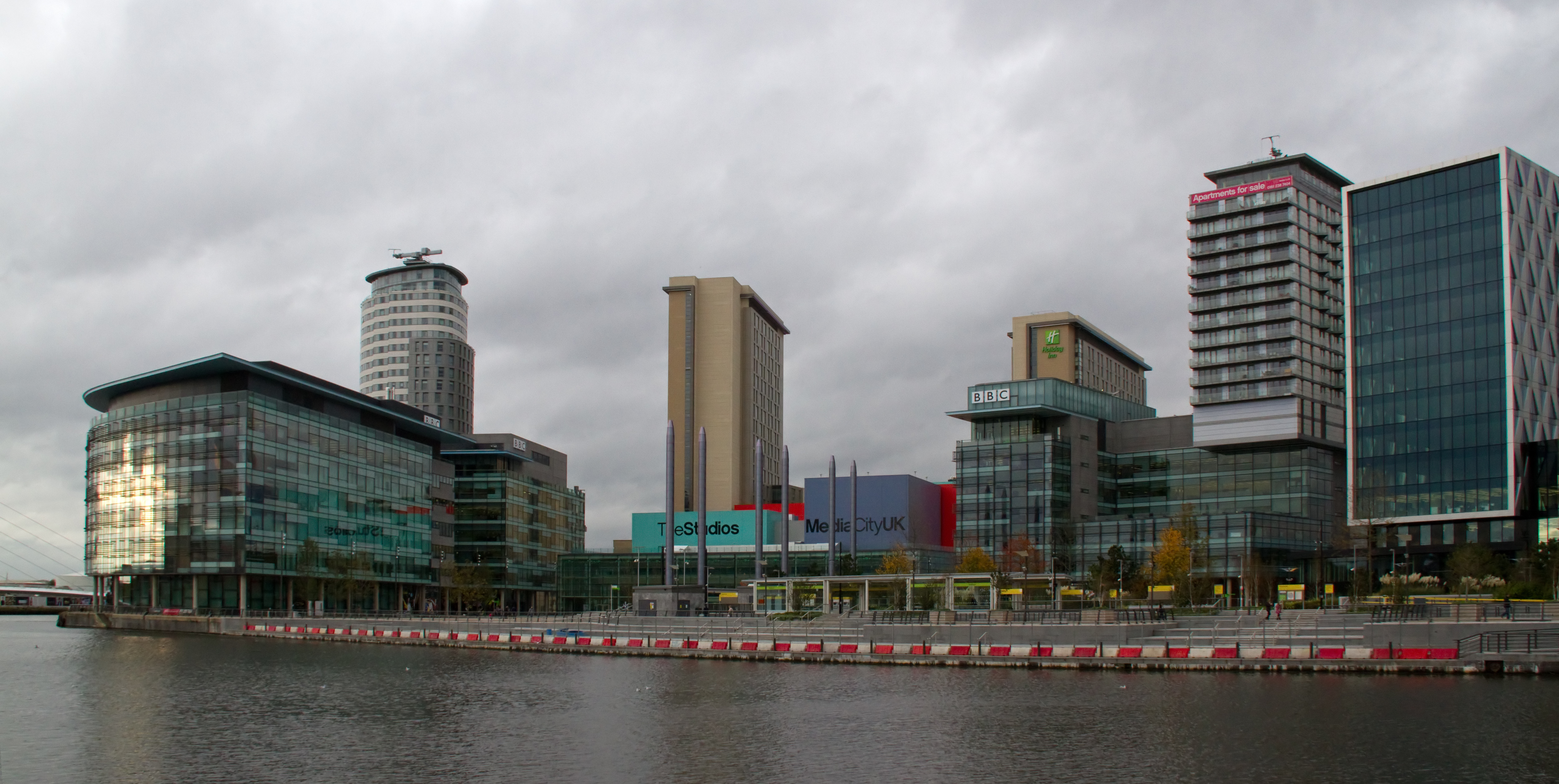 Salford Quays The BBC 1